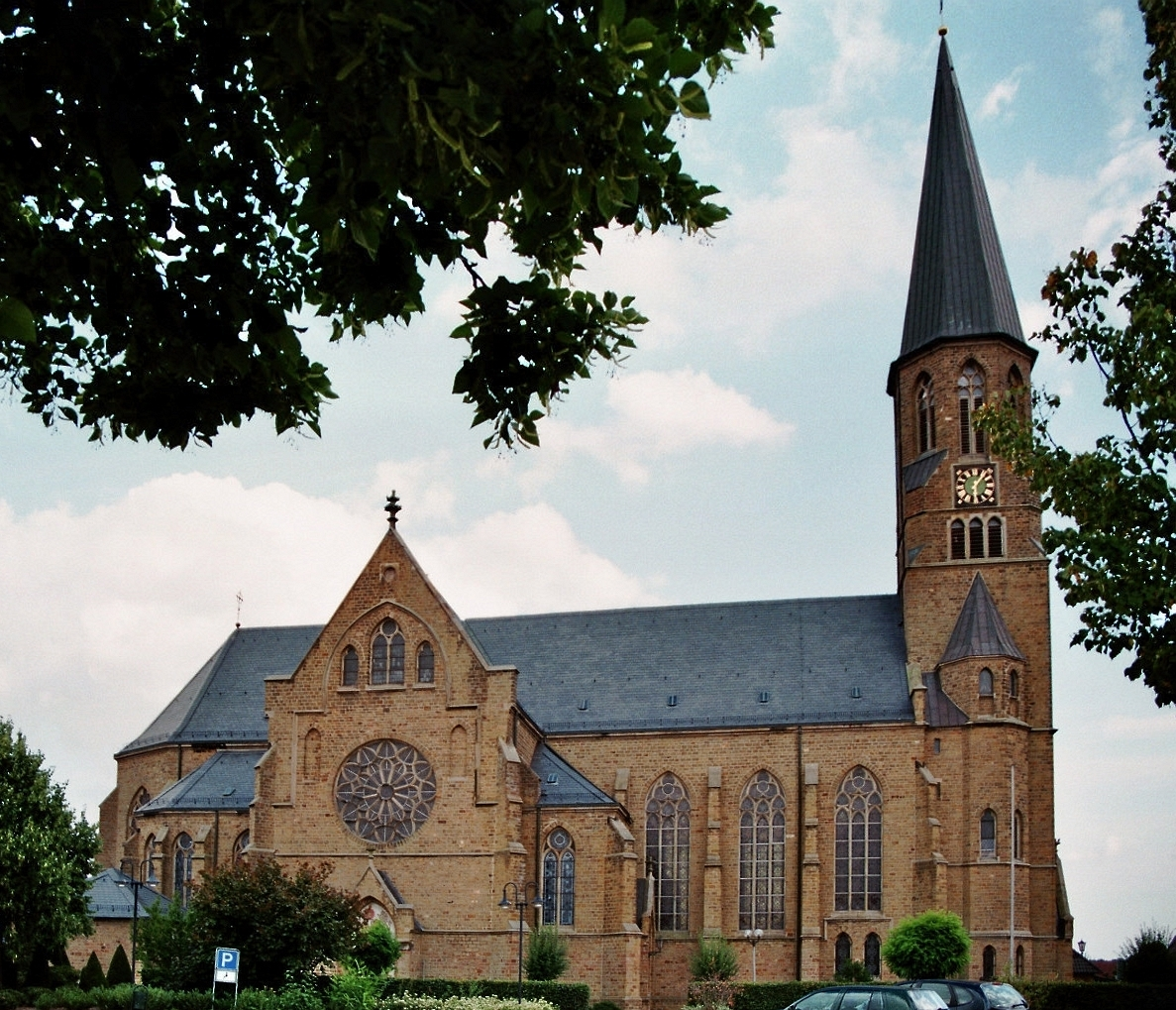 Catholic St. Laurentius church in Neuenkirchen, part of the Samtgemeinde Neuenkirchen, Landkreis Osnabrück, Lower Saxony, Germany.